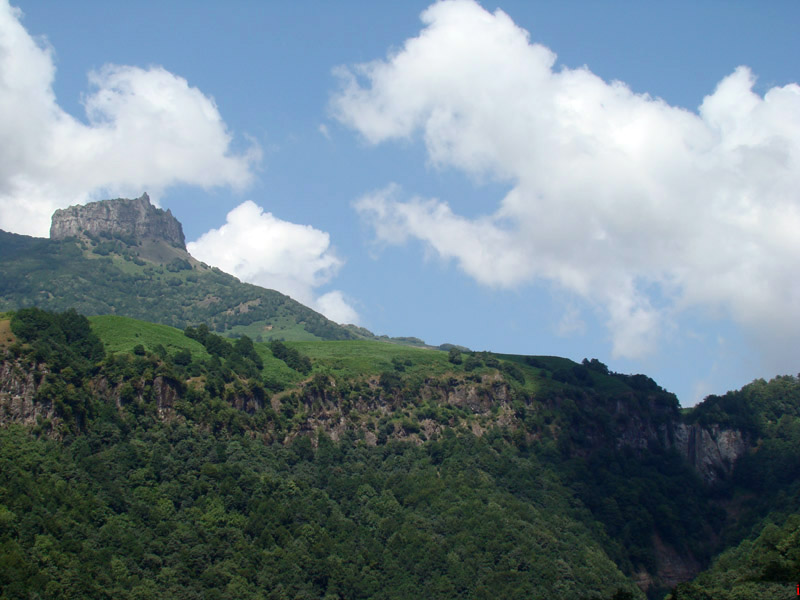 laton Waterfall